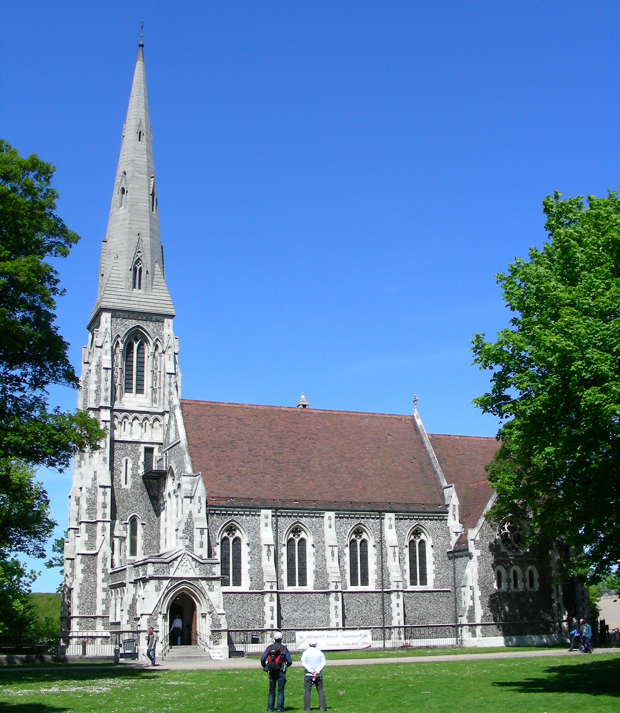 St. Alban's Church in Copenhagen. Seen from south.